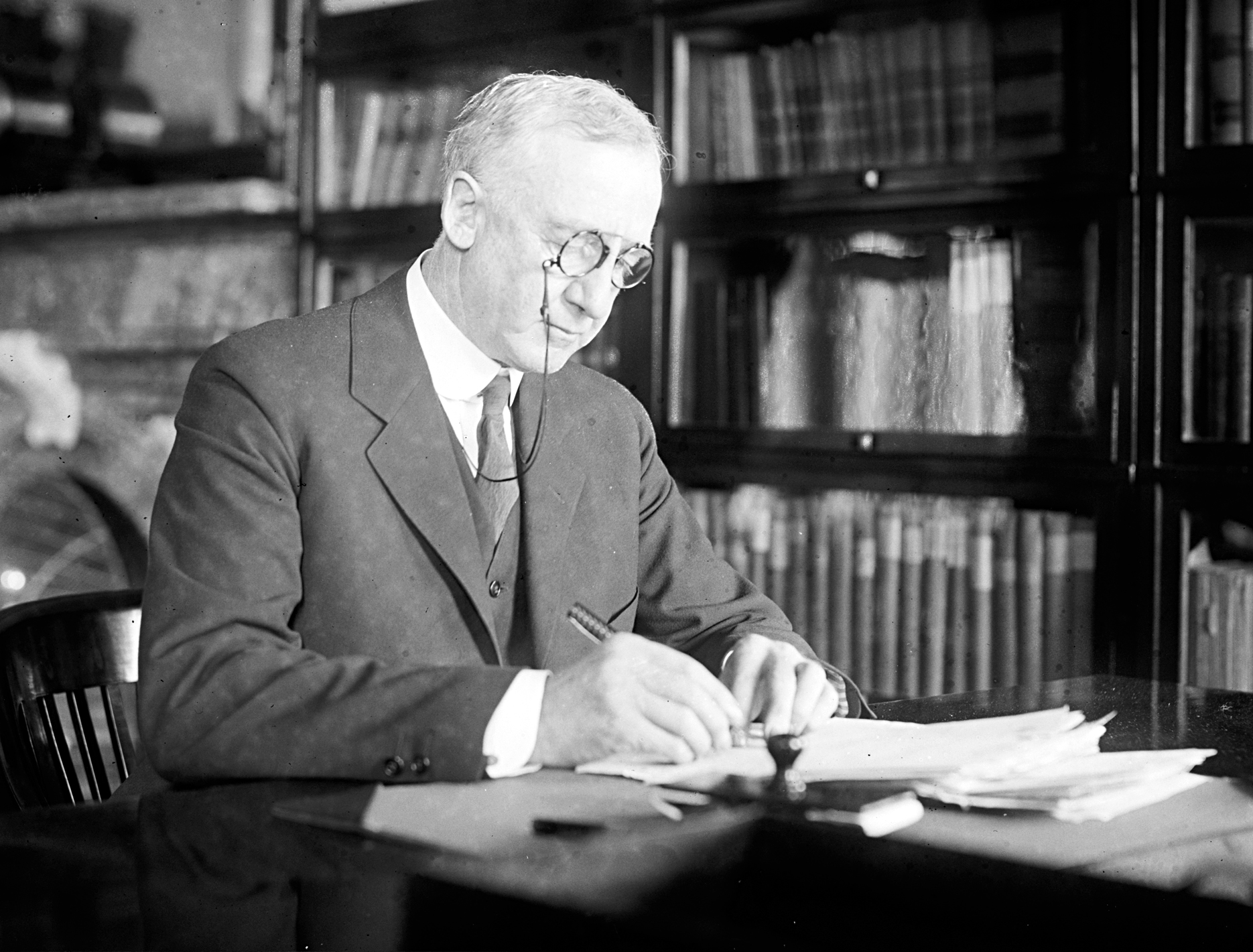 J. McKenzie Moss, US Representative from Kentucky and federal judge